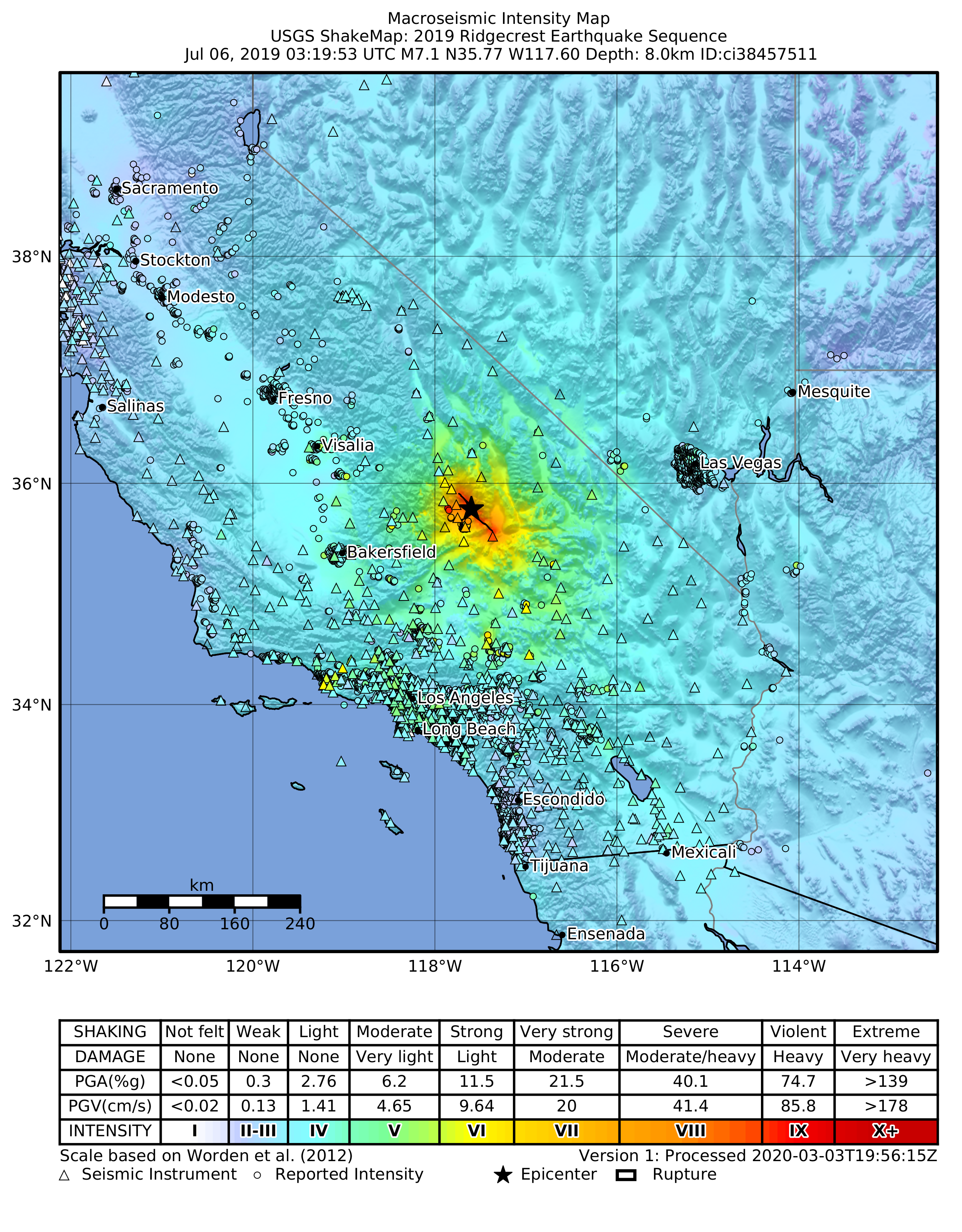 ShakeMap from USGS for the magnitude 7.1, maximum intensity 9.37 earthquake with tsunami near 17.4 km (10.8 mi) NNE of Ridgecrest, CA (17 km NNE of Ridgecrest, CA), 8 km depth.